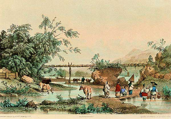 Auguste Borget's 'Bamboo Aqueduct, Hong Kong' Lithographed by E. Ciceri